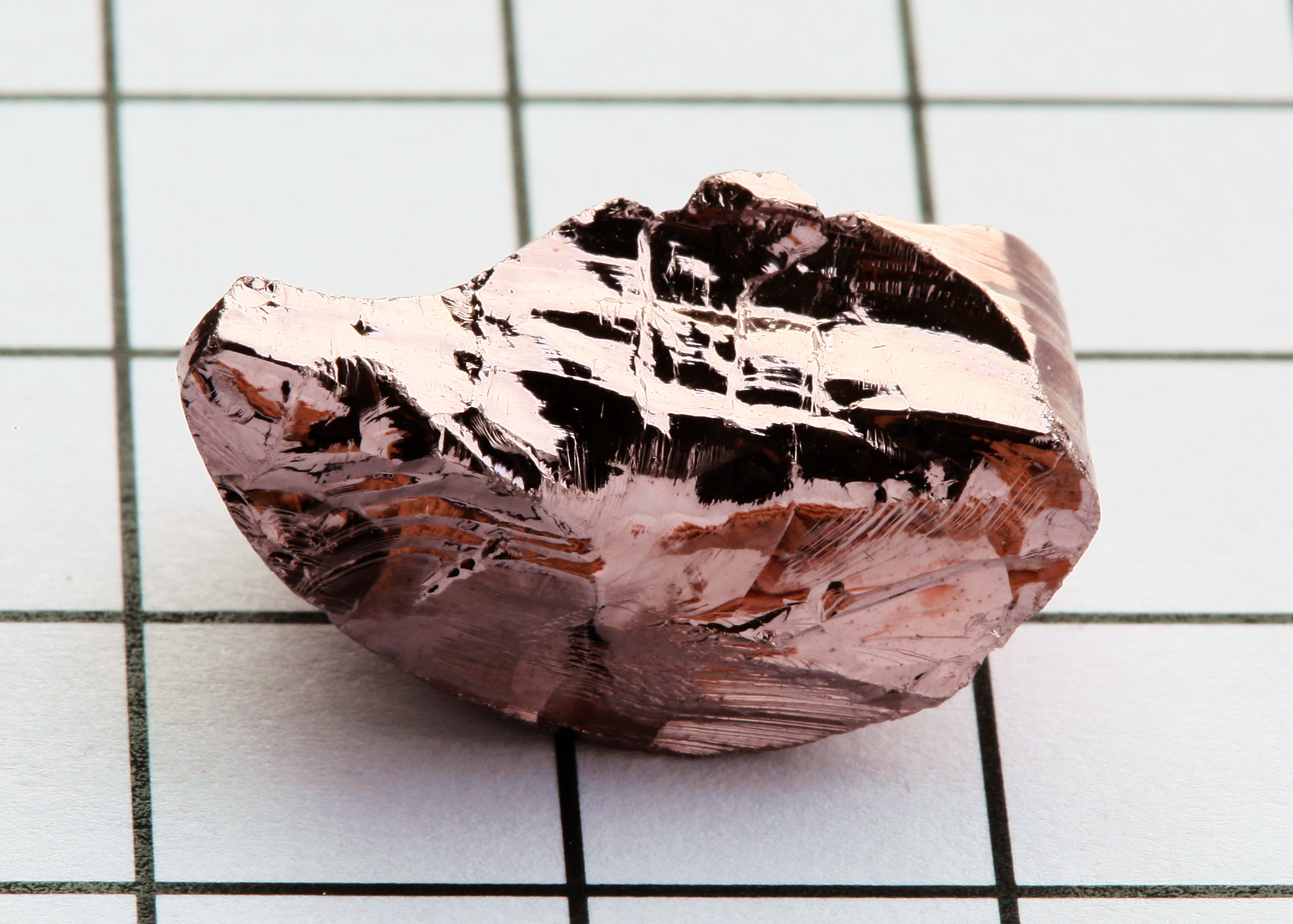 Nickel antimonide NiSb, a 11.5g sample, purity 99,999%, grid size 1cm